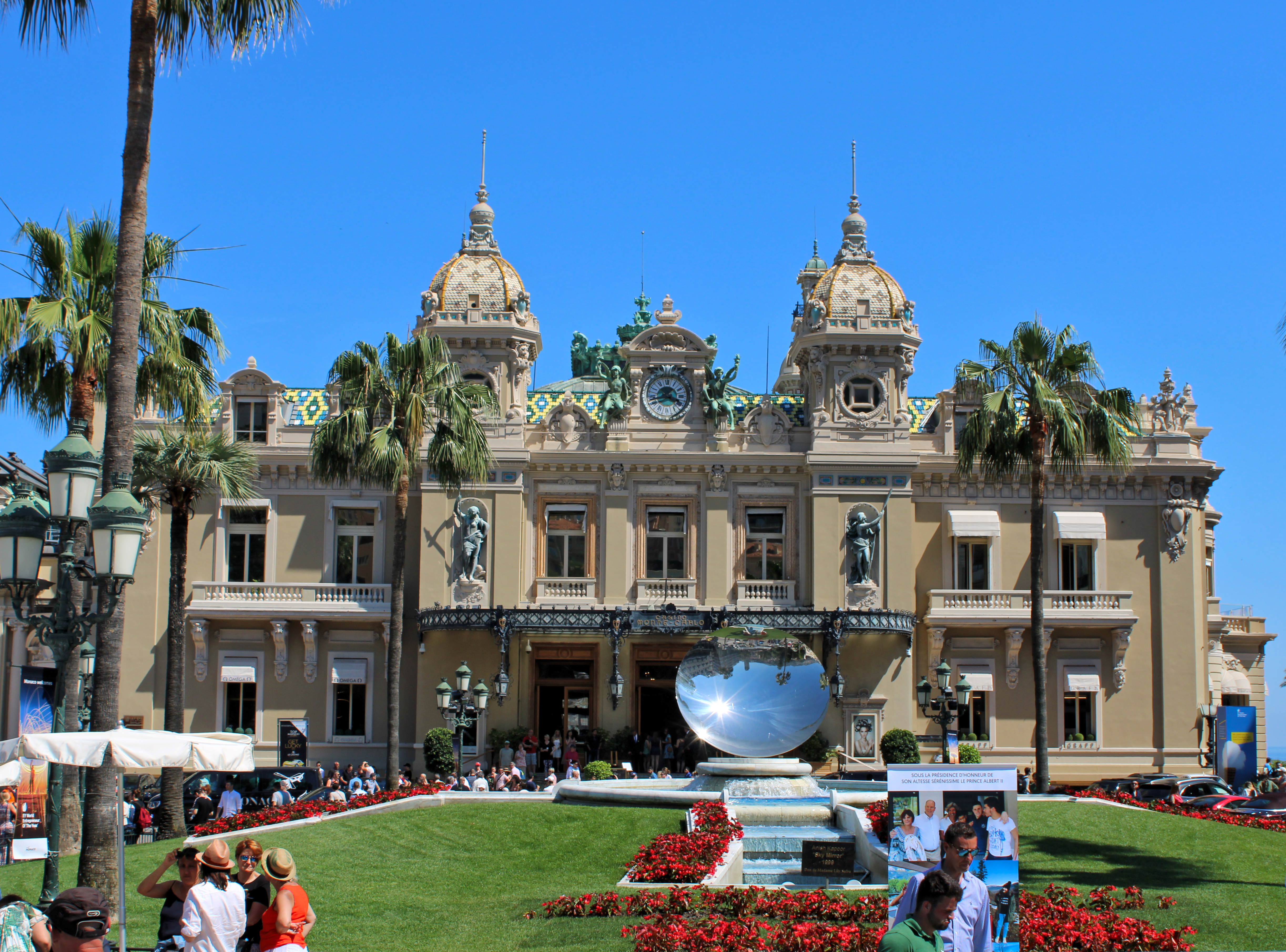 Casino de Monte Carlo in Monaco